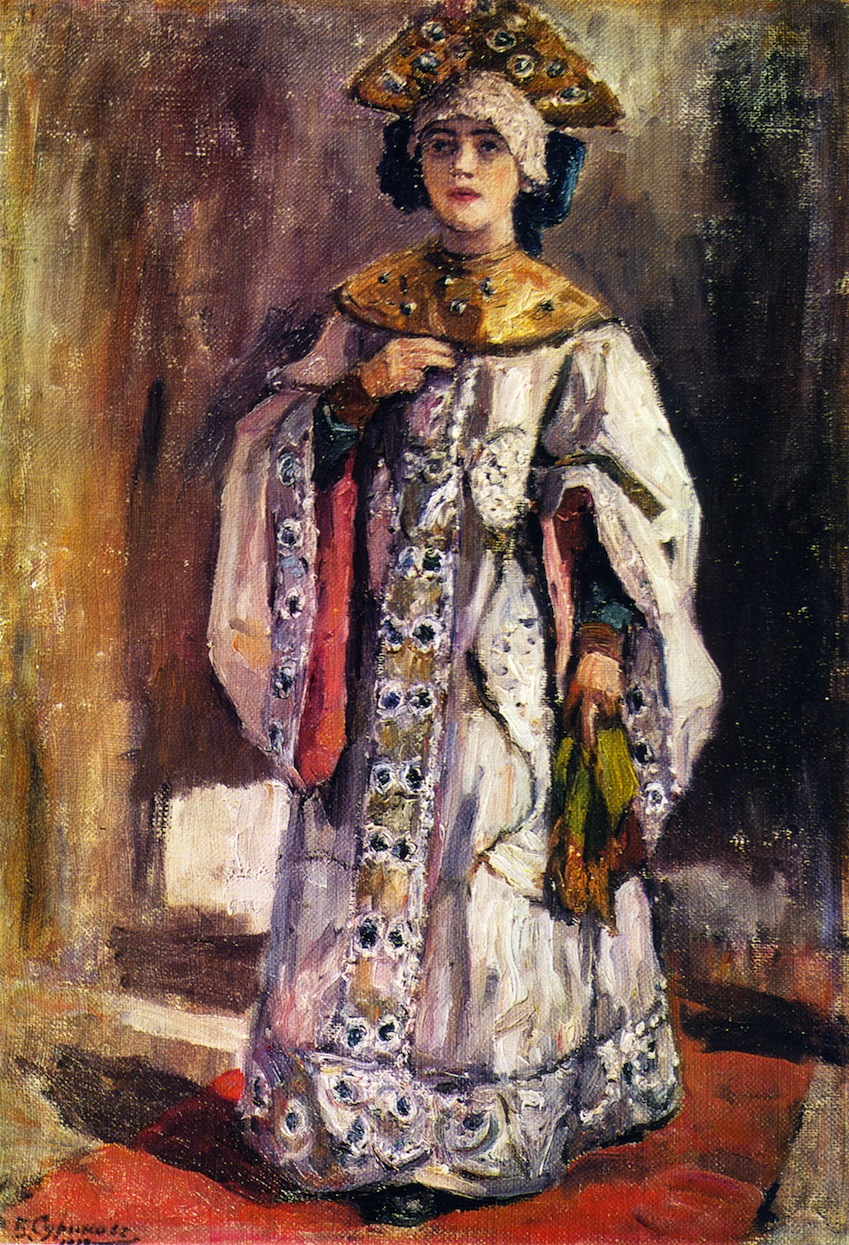 Owner/Location: National Art Museum of the Republic of Belarus (Belarus) Dimensions: Height: 56 cm (22.05 in.), Width: 39 cm (15.35 in.) Medium: Painting - oil on canvas